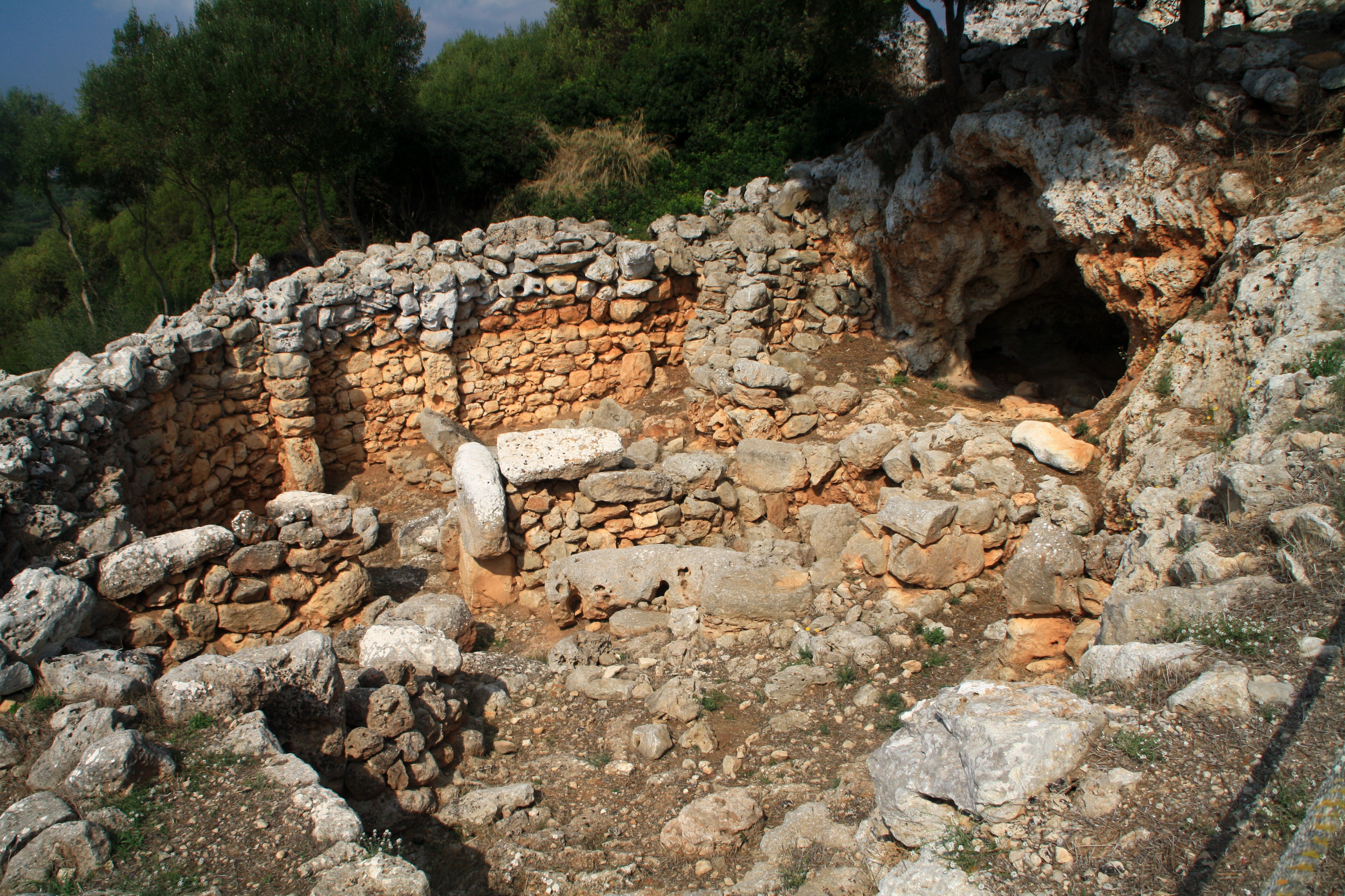 Excavated talayotic house with a natural cave in Torre d'en Galmés, Minorca.